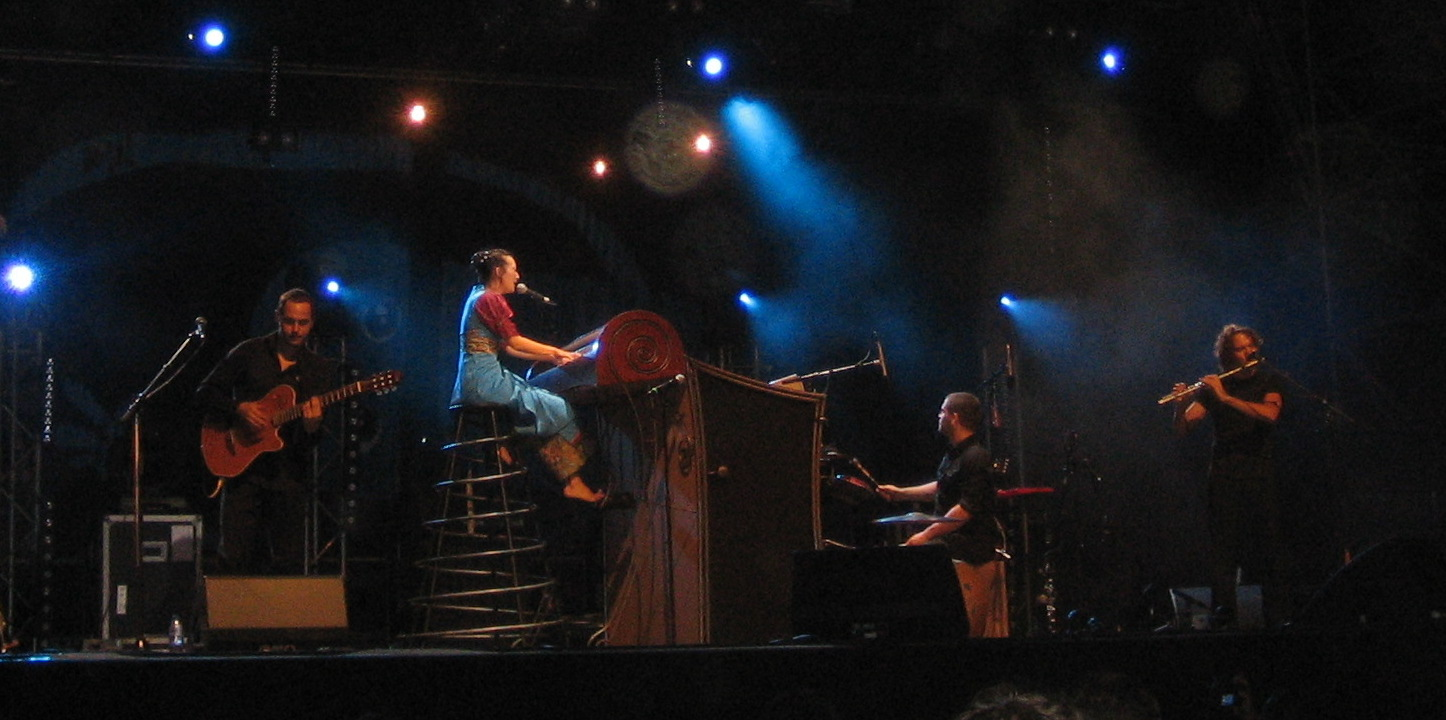 Amélie-les-crayons at WoodsTower festival (Lyon) in 2008